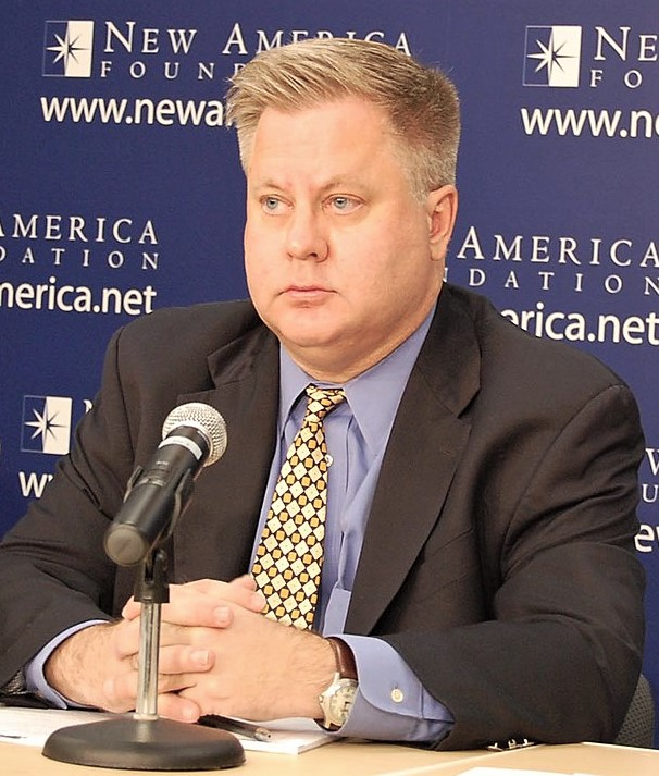 Michael Lind participating in a New America panel.